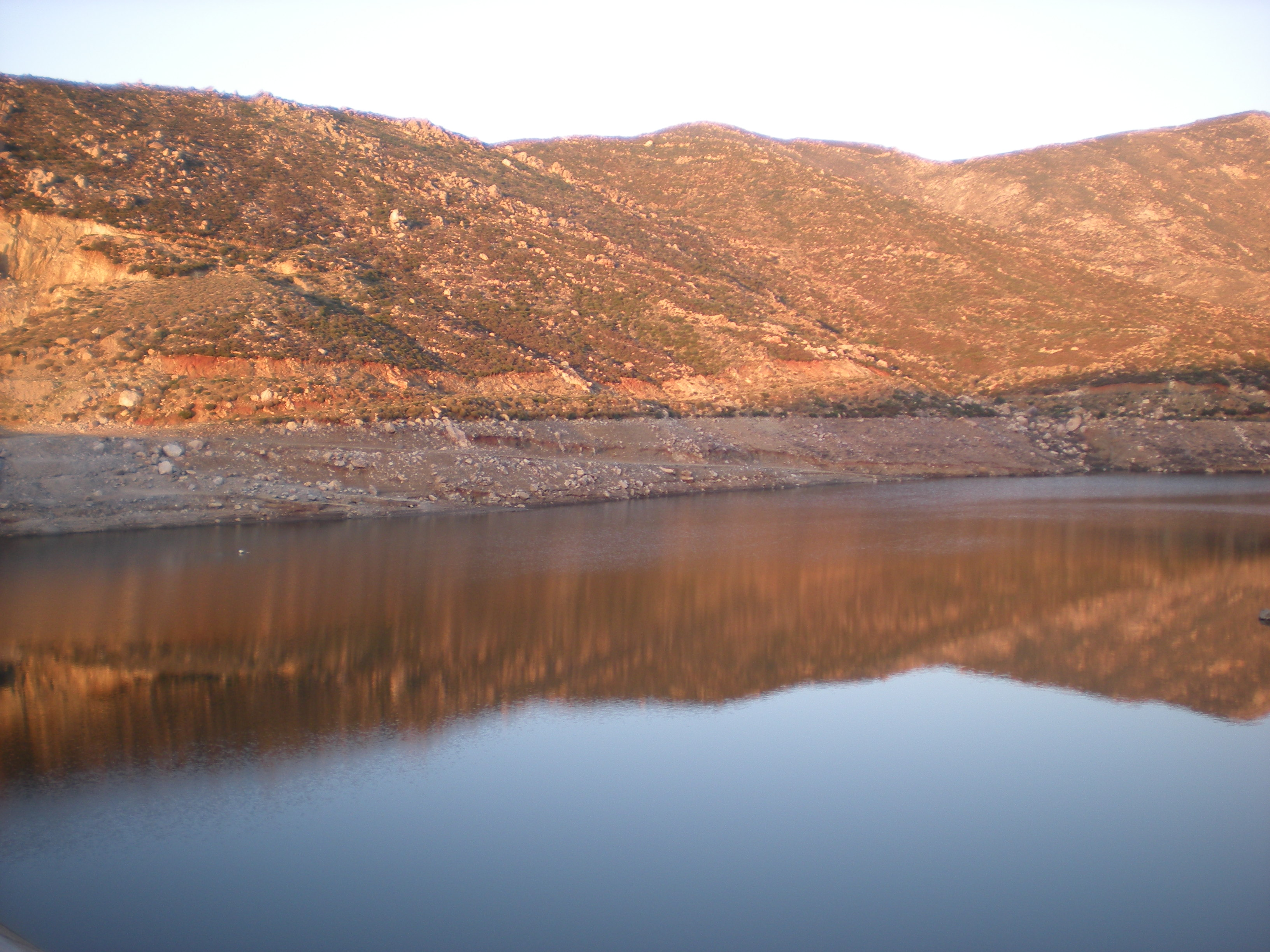 Faneromeni reservoir, Naxos